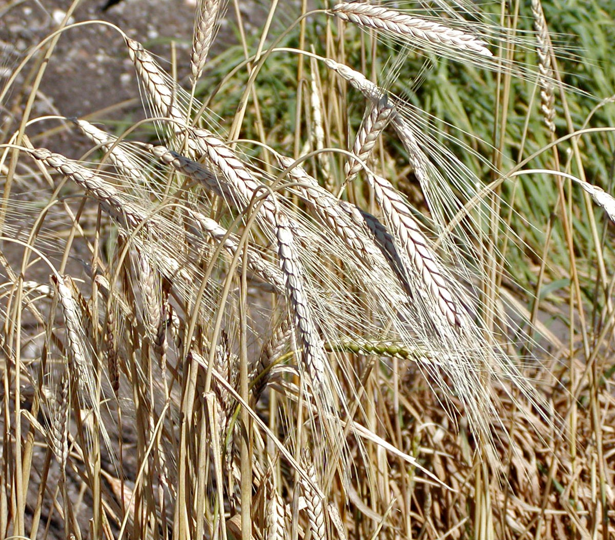 Photo of Triticum turgidum at Aarhus Botanical Garden